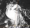 Tropical Storm Simon near peak strength on 1990-10-11